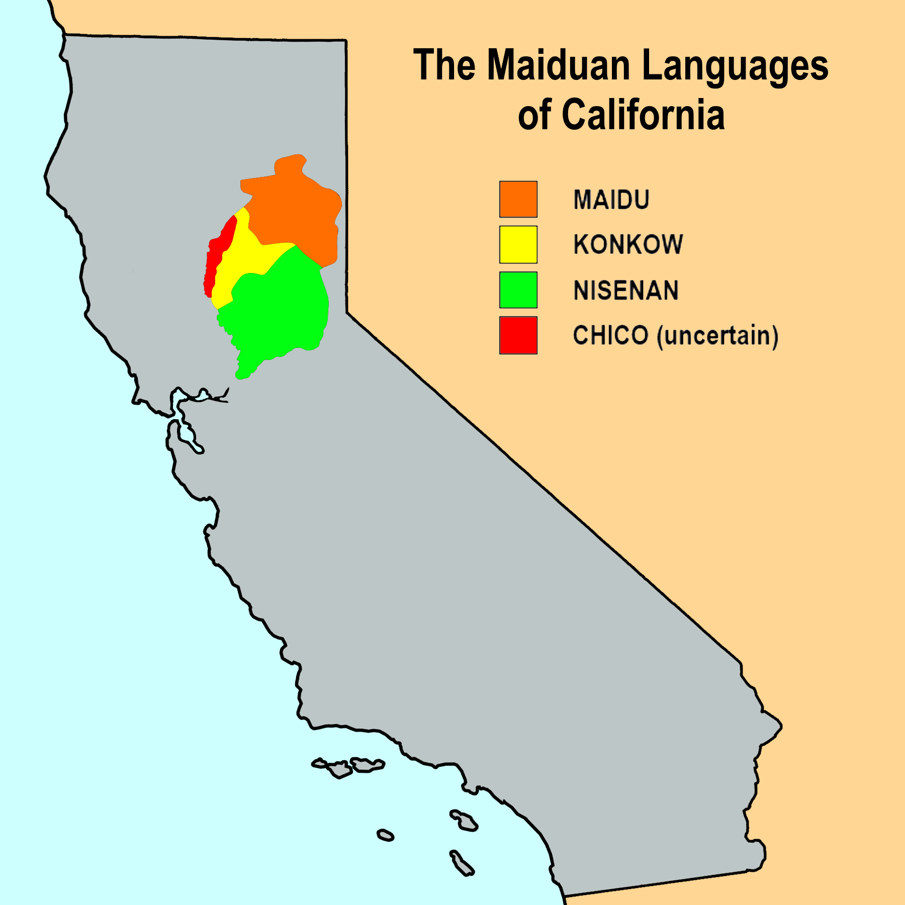 This replaces the previous version ("Calif MaiduanLanguages map.svg") with updated borders. These improved borders reflect the map devised by Prof. Roland B. Dixon during his field work for the Huntington California Expedition, ca.1899 CE, and published in "Maidu Myths" in the Bulletin of the American Museum of Natural History, published in June 1902. Details of the Chico language borders reflect information found in Dr. Russell Ultan's doctoral dissertation on the Konkow language ("Konkow Grammar") held at the University of California at Berkeley (1967). The previous versions of this map were definitely incorrect. I would have preferred to provide an .SVG version, but being unfamiliar with vector graphics creation I'm not quite ready to create one. I may revisit this after figuring out to work with the one I have available.